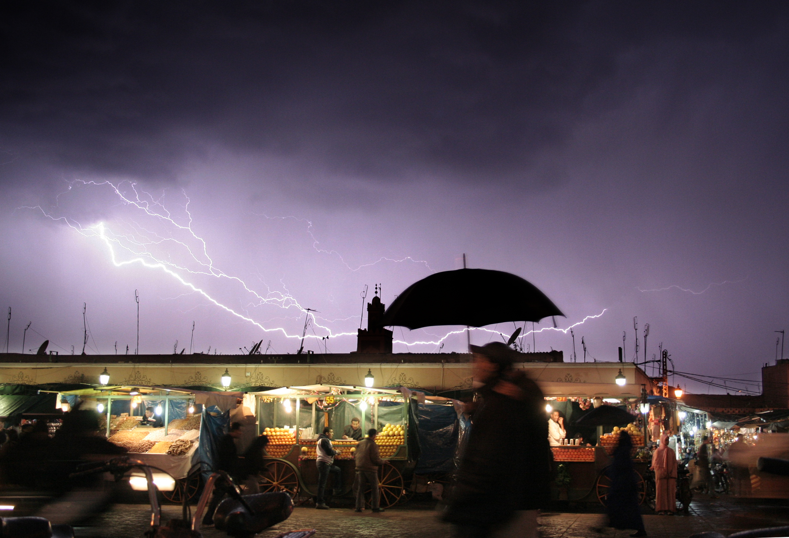 Lightning in Place Jemaa el Fna, Marrakech, Maroc By Blaise Thirard